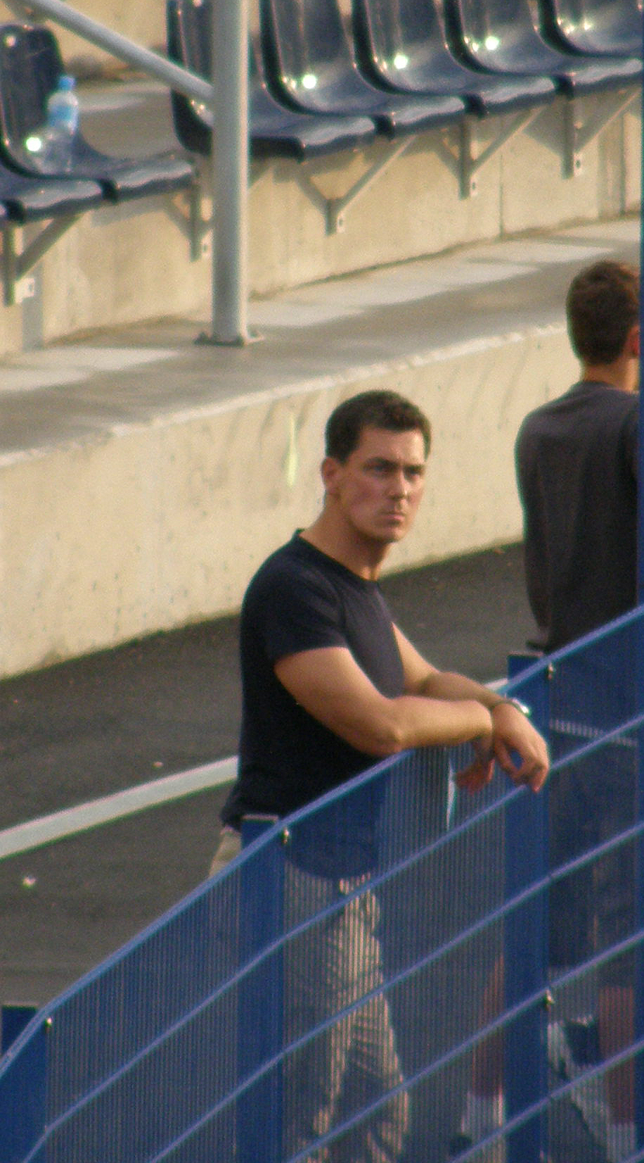 Dariusz Trafas - Polish javelin thrower , Bydgoszcz 2008